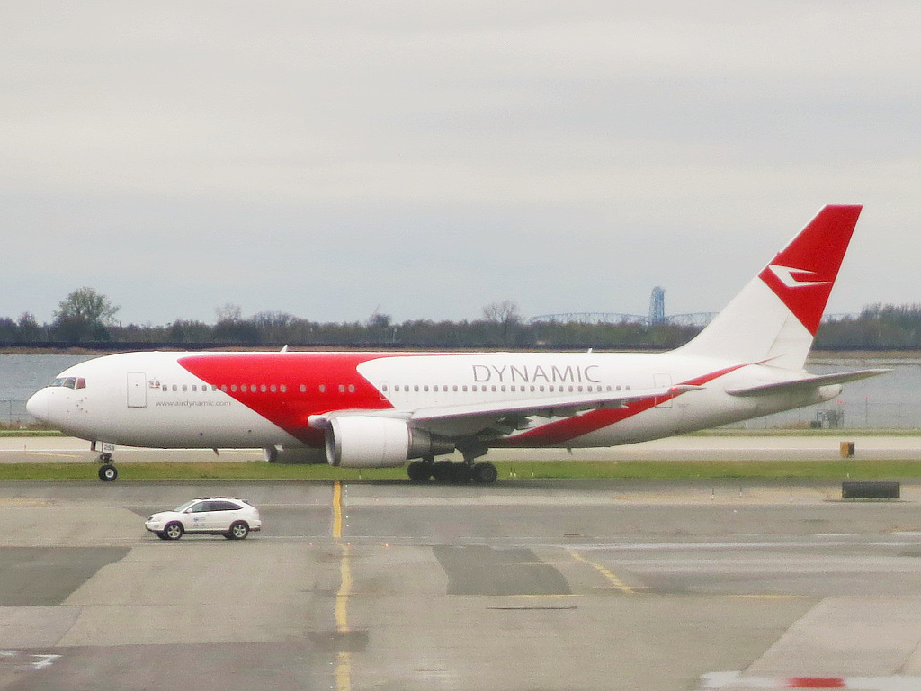 A Dynamic Airways Boeing 767-200ER is taxiing out from Terminal 1 at John F. Kennedy International Airport (immediately to the right of the picture but out of frame) for departure to perform Flight 2D411 to Caracas, Venezuela.